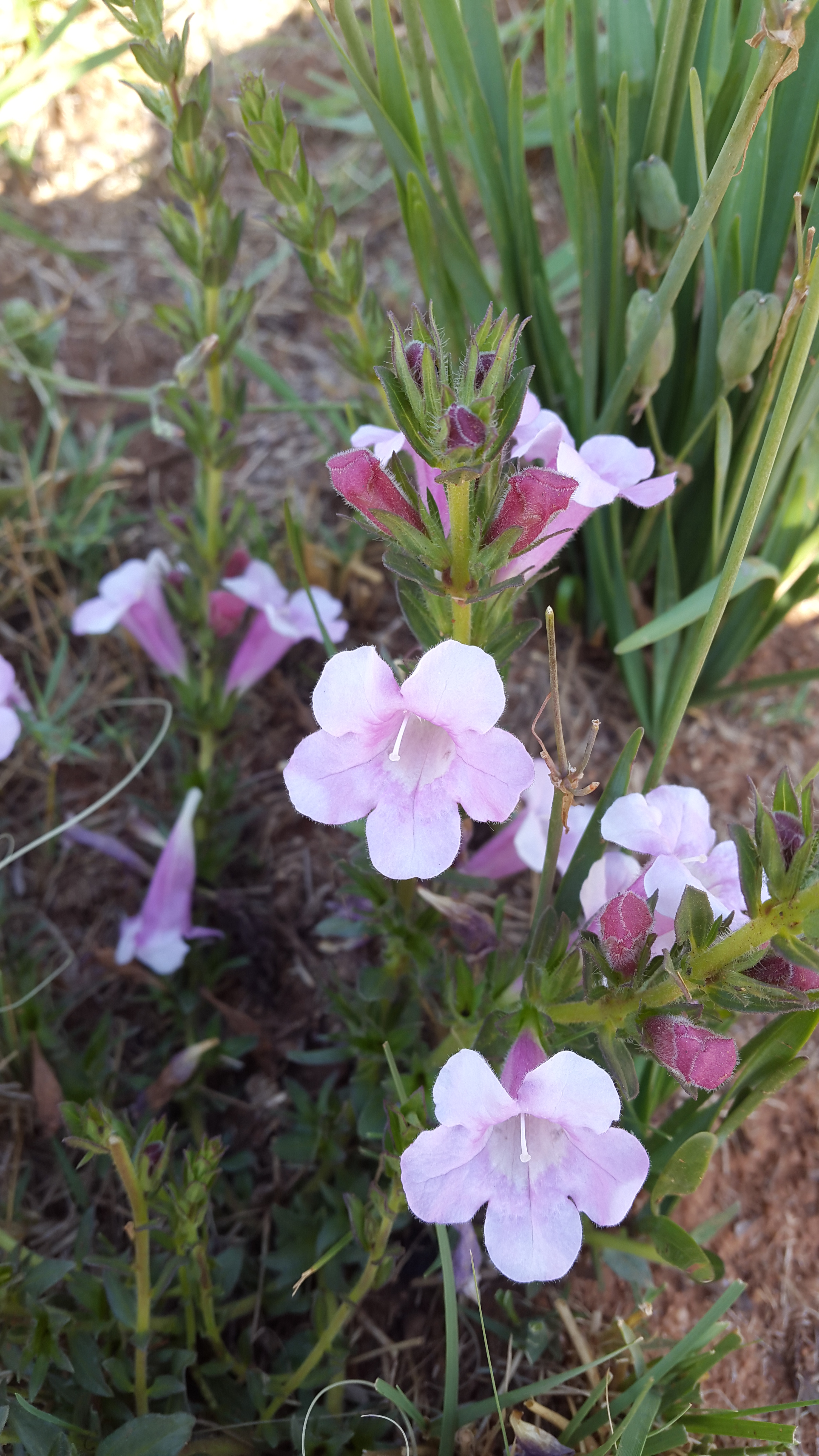 Graderia subintegra Mast., Honeydew, Gauteng, South Africa